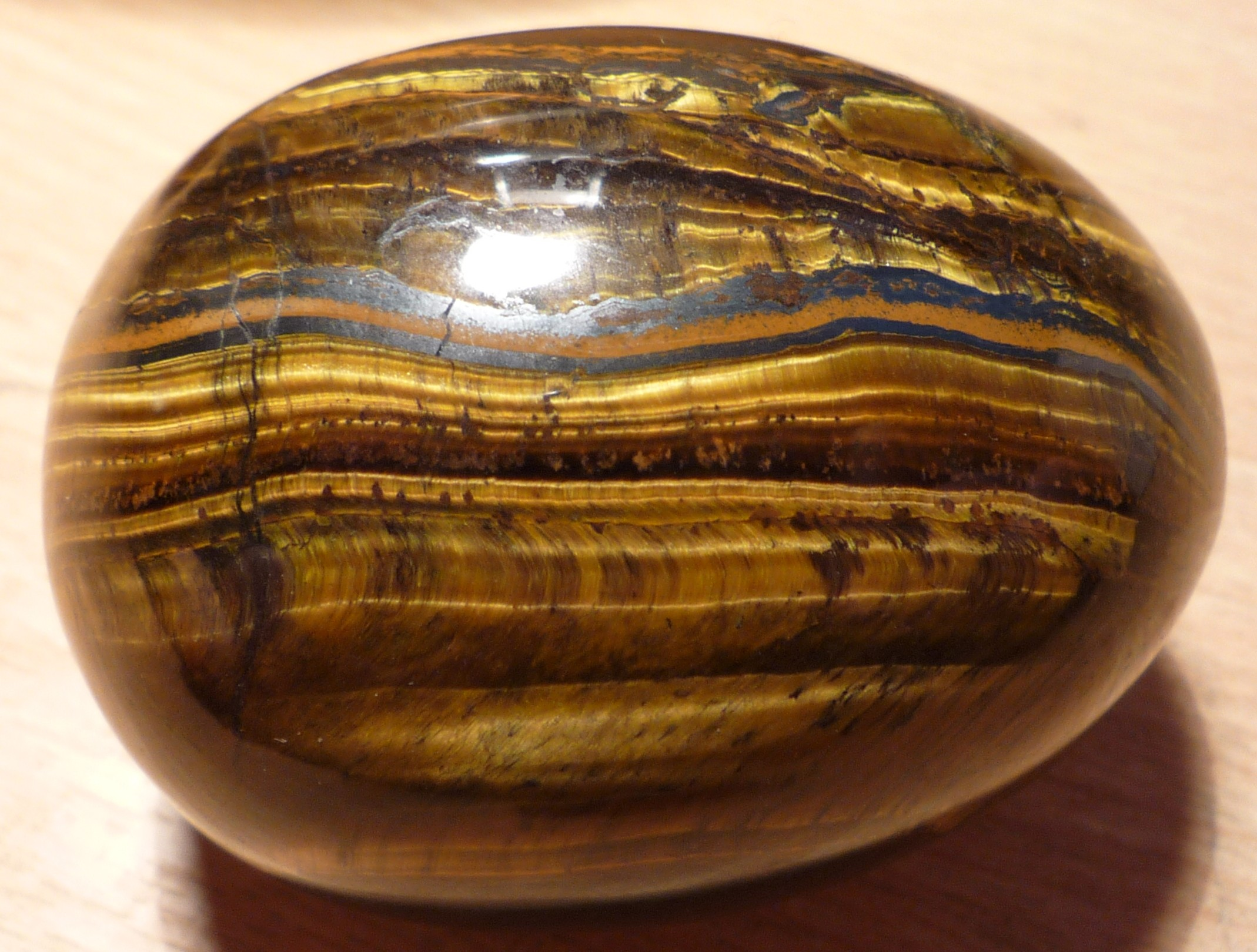 Tiger's eye gemstone as an egg shape with some iron stripes on it.